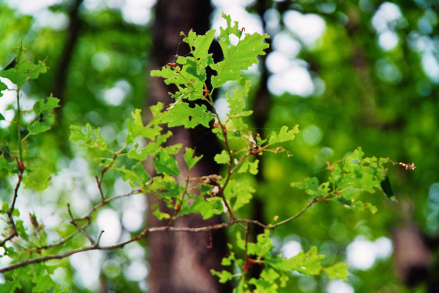 Damages of Green Oak Tortrix (Tortrix viridana) on Sessile Oak (Quercus petraea) in Tauer Oaks (Tauersche Eichen), part of the nature reserve Pinnower Läuche und Tauersche Eichen (Naturschutzgebiet Pinnower Läuche und Tauersche Eichen), near Jänschwalde-Drewitz, Spree-Neiße, Brandenburg, Germany.